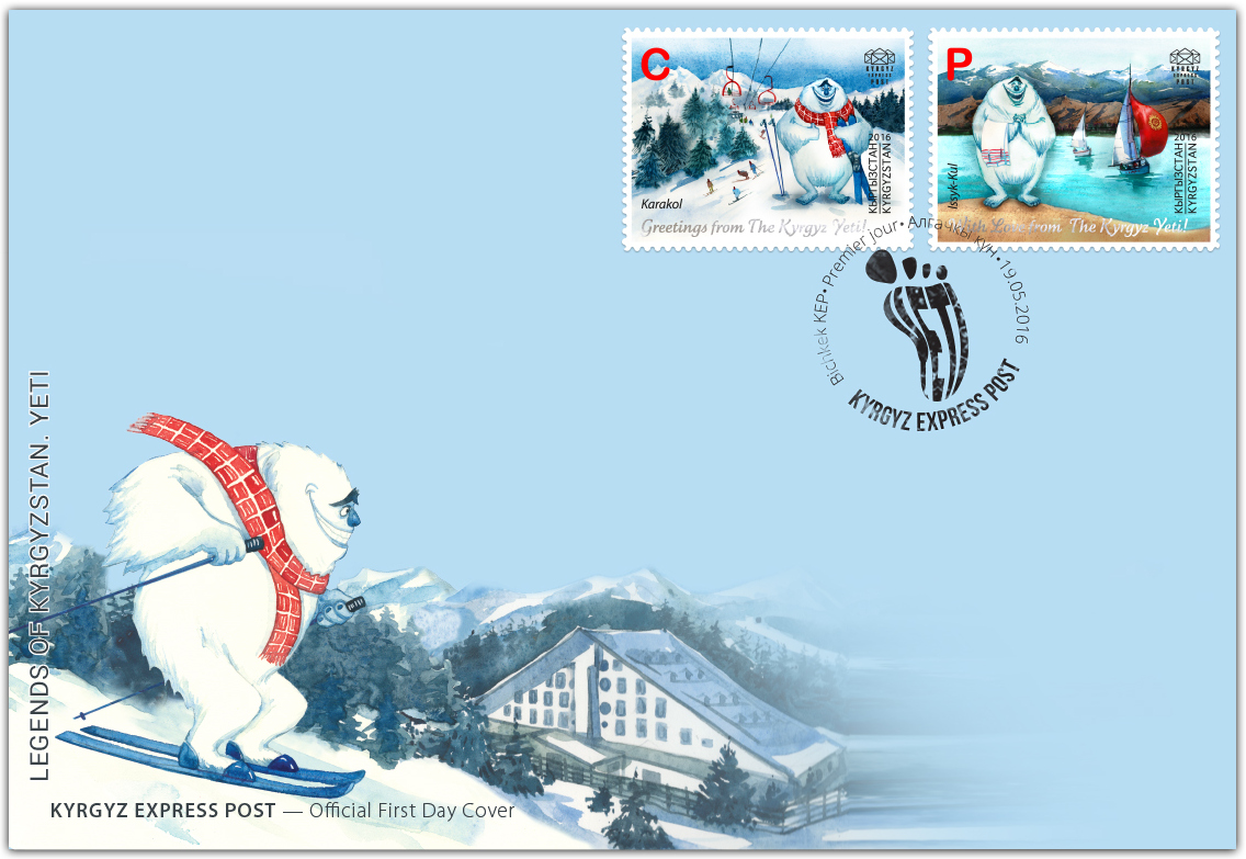 Legends of Kyrgyzstan - Yeti